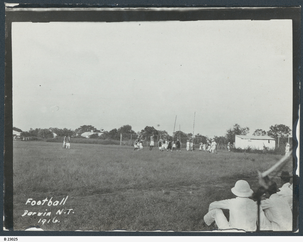 Photograph of a game of Australian Rules Football in Darwin in 1916.